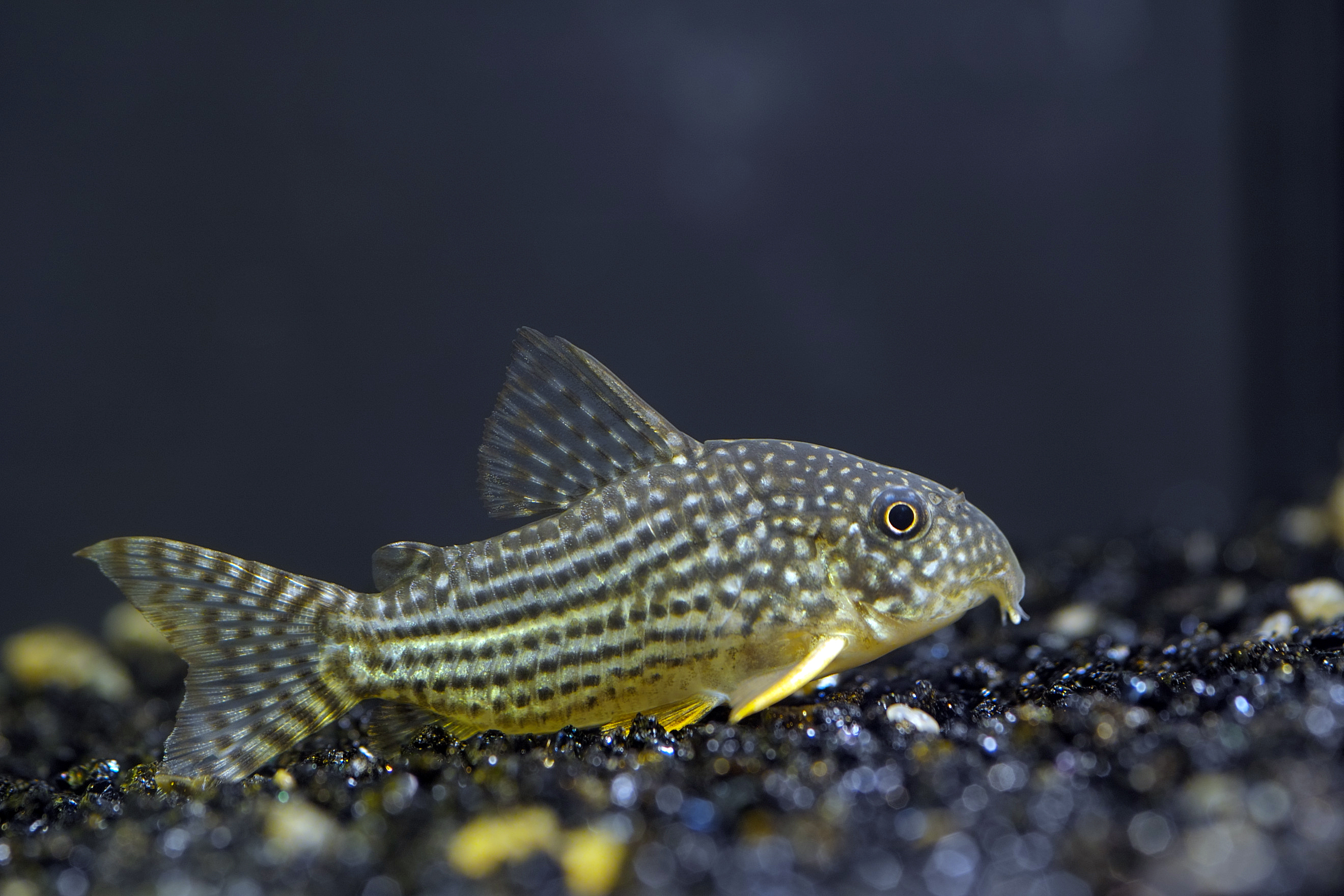 Aquarium shot of the species Corydoras Sterbai.